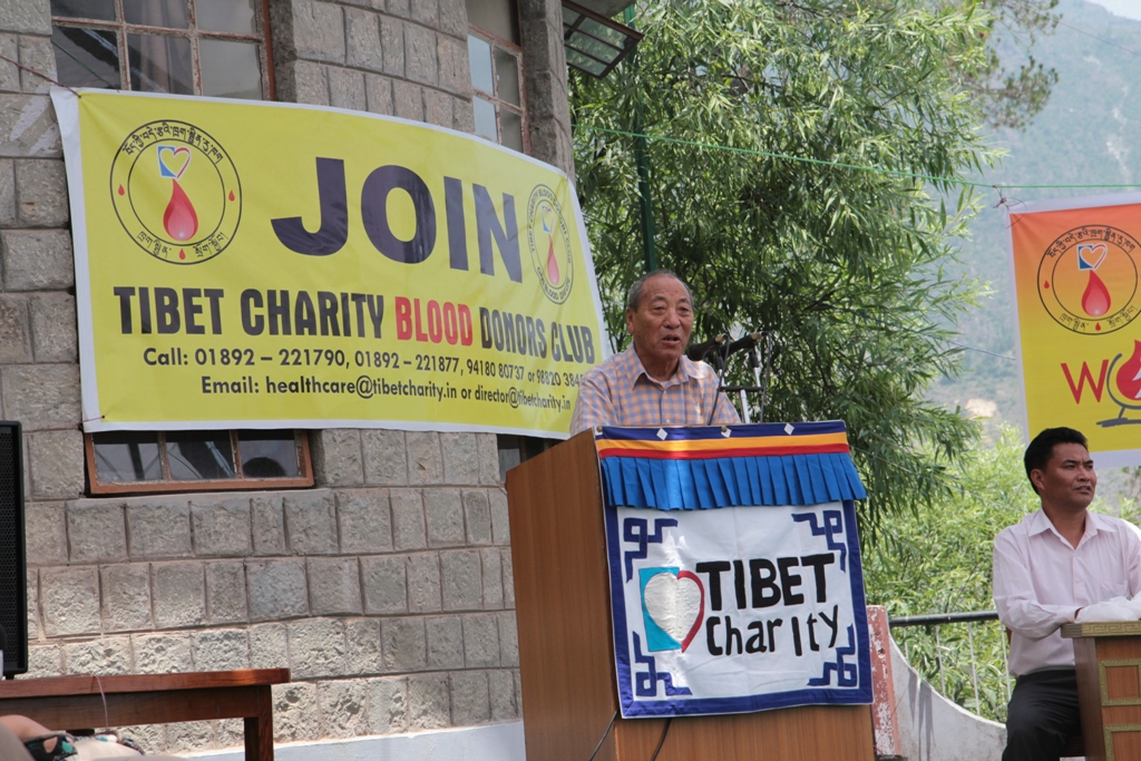 Sonam Topgyal